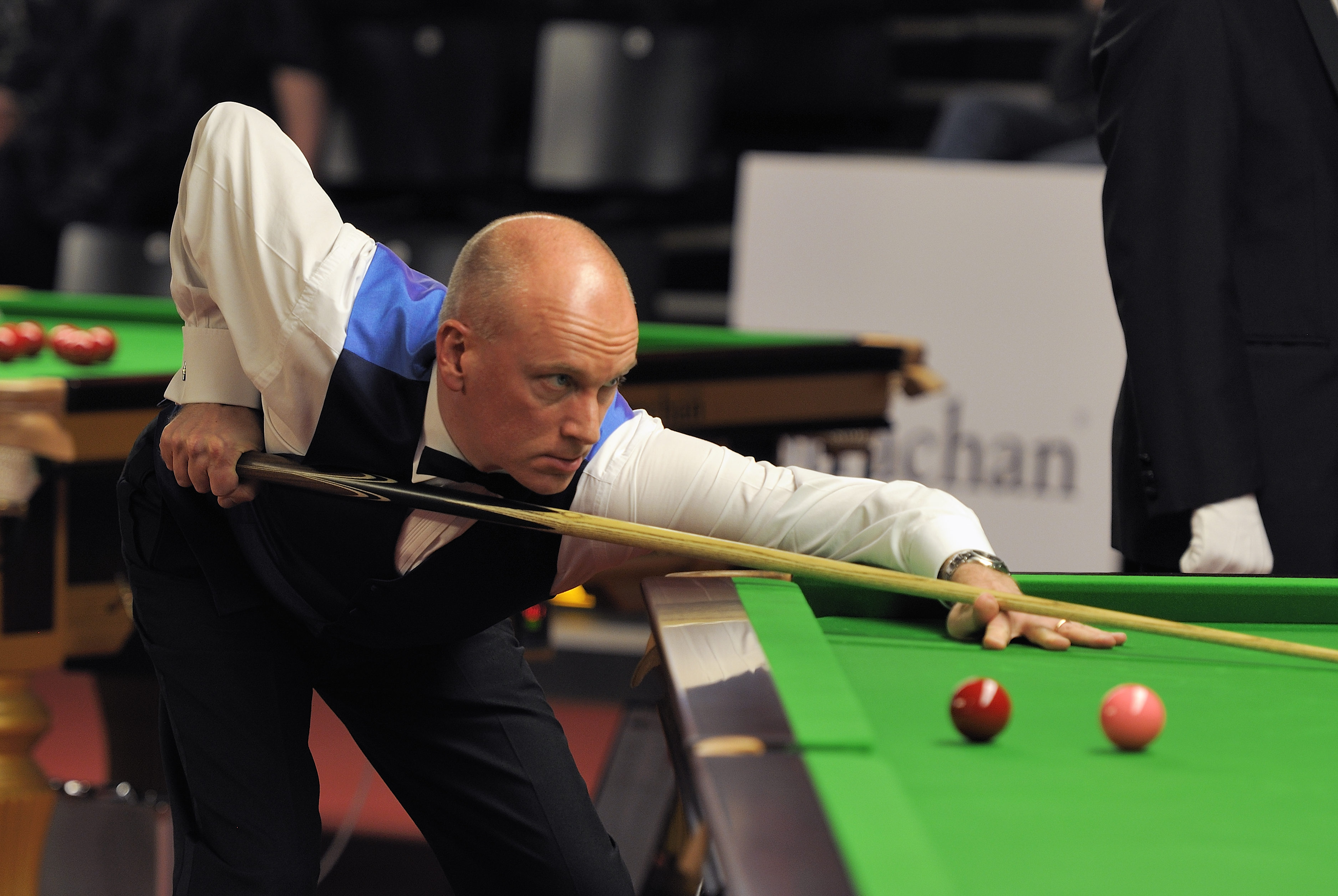 Picture taken in Berlin during the Snooker German Masters in 2014. Peter Ebdon.